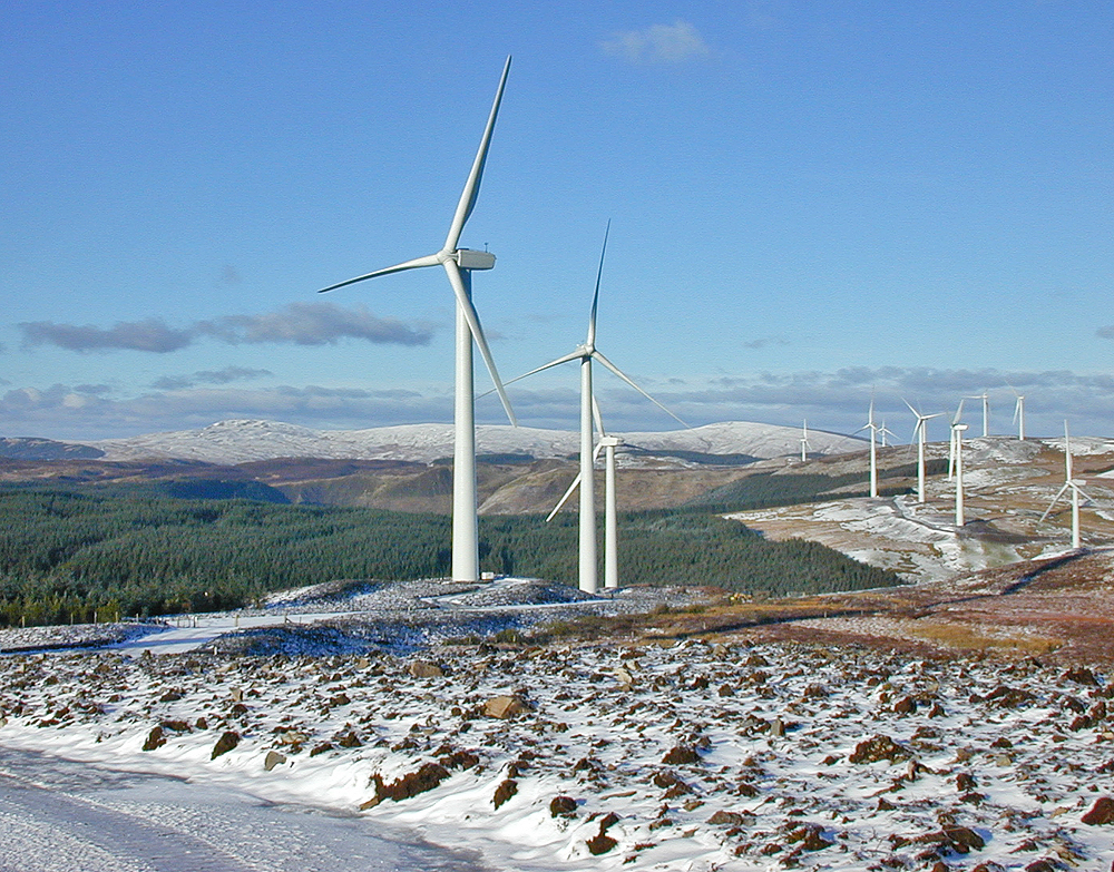 Cefn Croes wind farm. Winter is still around, but taken a month later and in brighter conditions than 1616460.